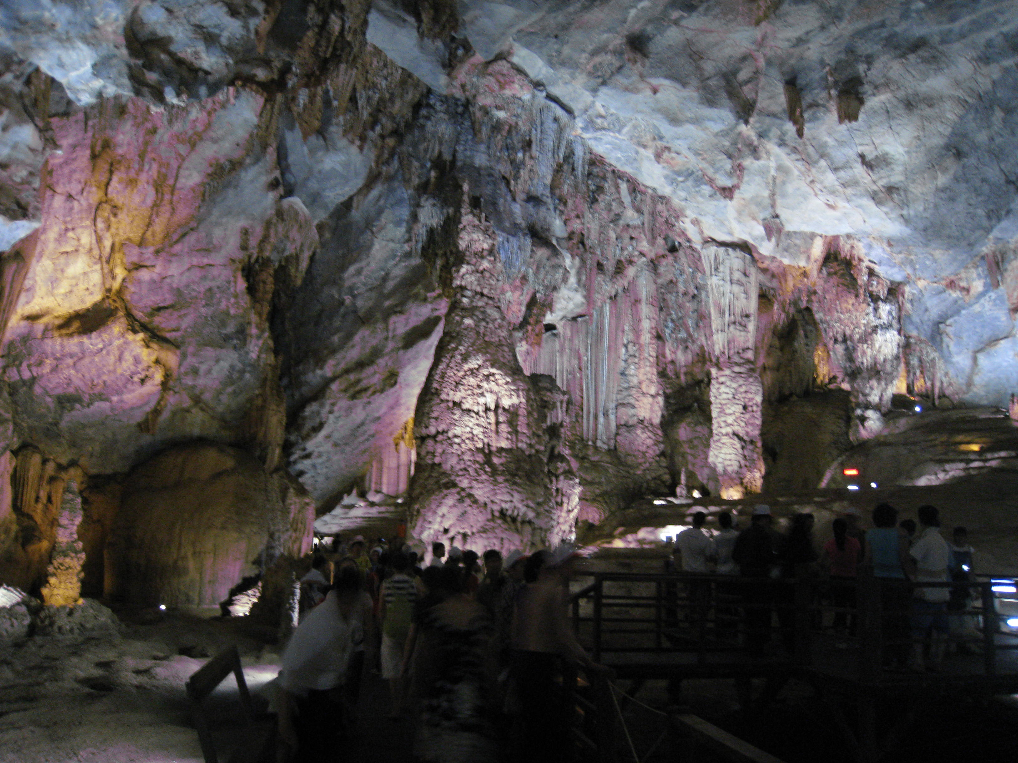 Inside Thien Duong (Paradise) Cave in Phong Nha-Ke Bang National Park, Vietnam